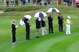 Ji-Yai Shin (KOR) (far right) and Anna Nordqvist (SWE) (far left) during the 2008 Women's British Open decoration ceremony.